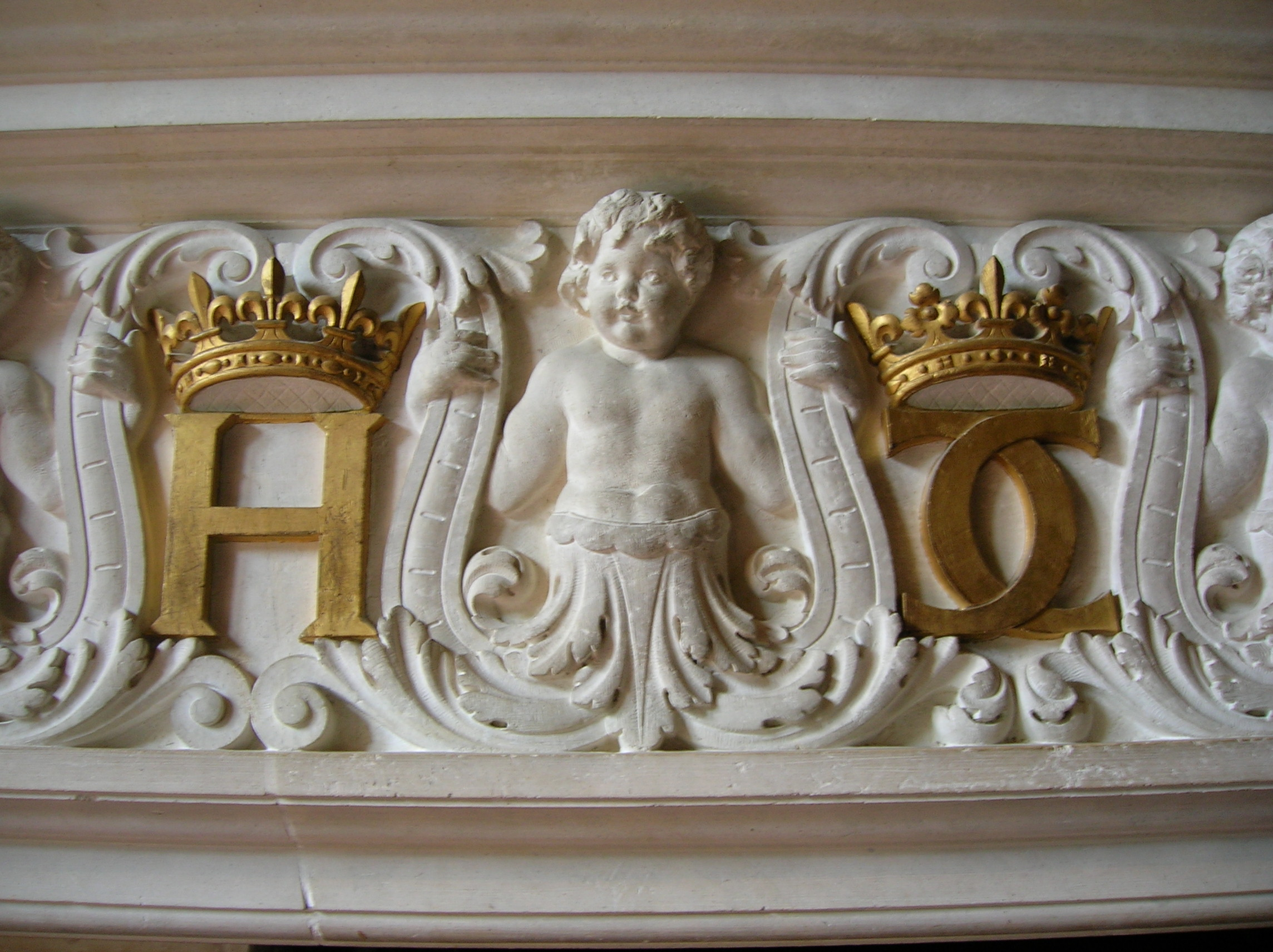 Insignias of Henri II of France (left) and Catherine de' Medici (right) on a fireplace of the Château de Chenonceau.